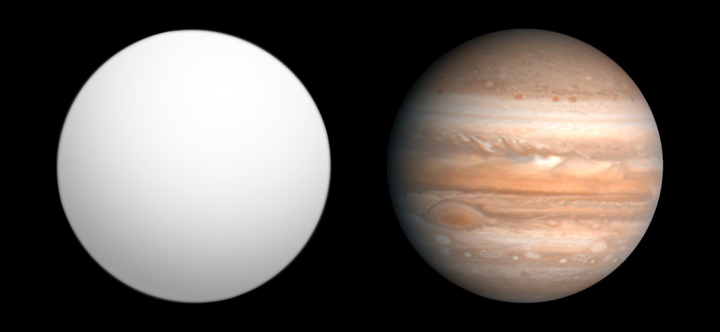 Comparison of best-fit size of the exoplanet HAT-P-18 b with the Solar System planet Jupiter, as reported in the Open Exoplanet Catalogue[1] as of 2010-09-30. ↑ Open Exoplanet Catalogue (2010-09-30). Retrieved on 2010-09-30.